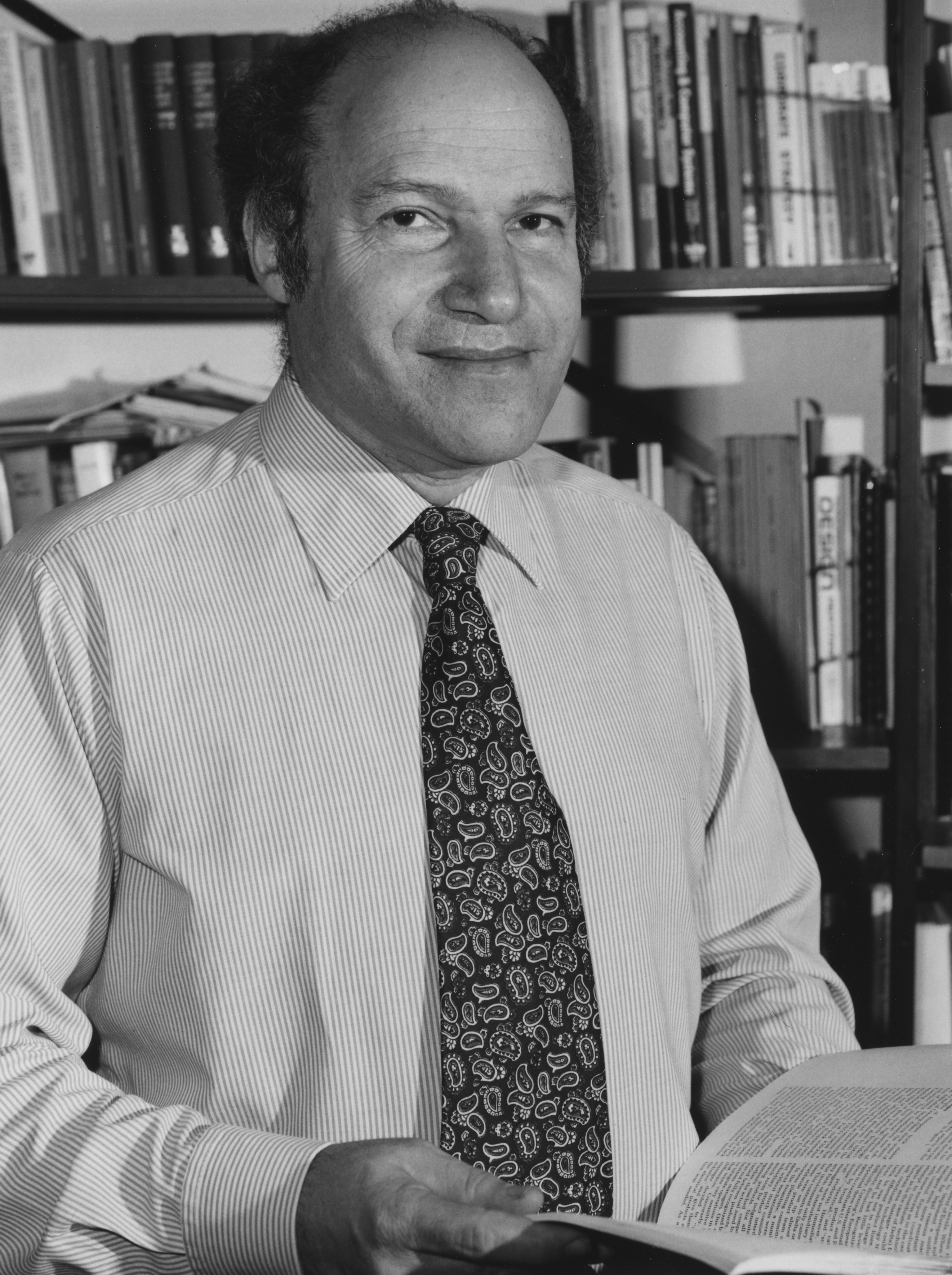 Professor of Systems Analysis, Department of Management IMAGELIBRARY/993 Persistent URL